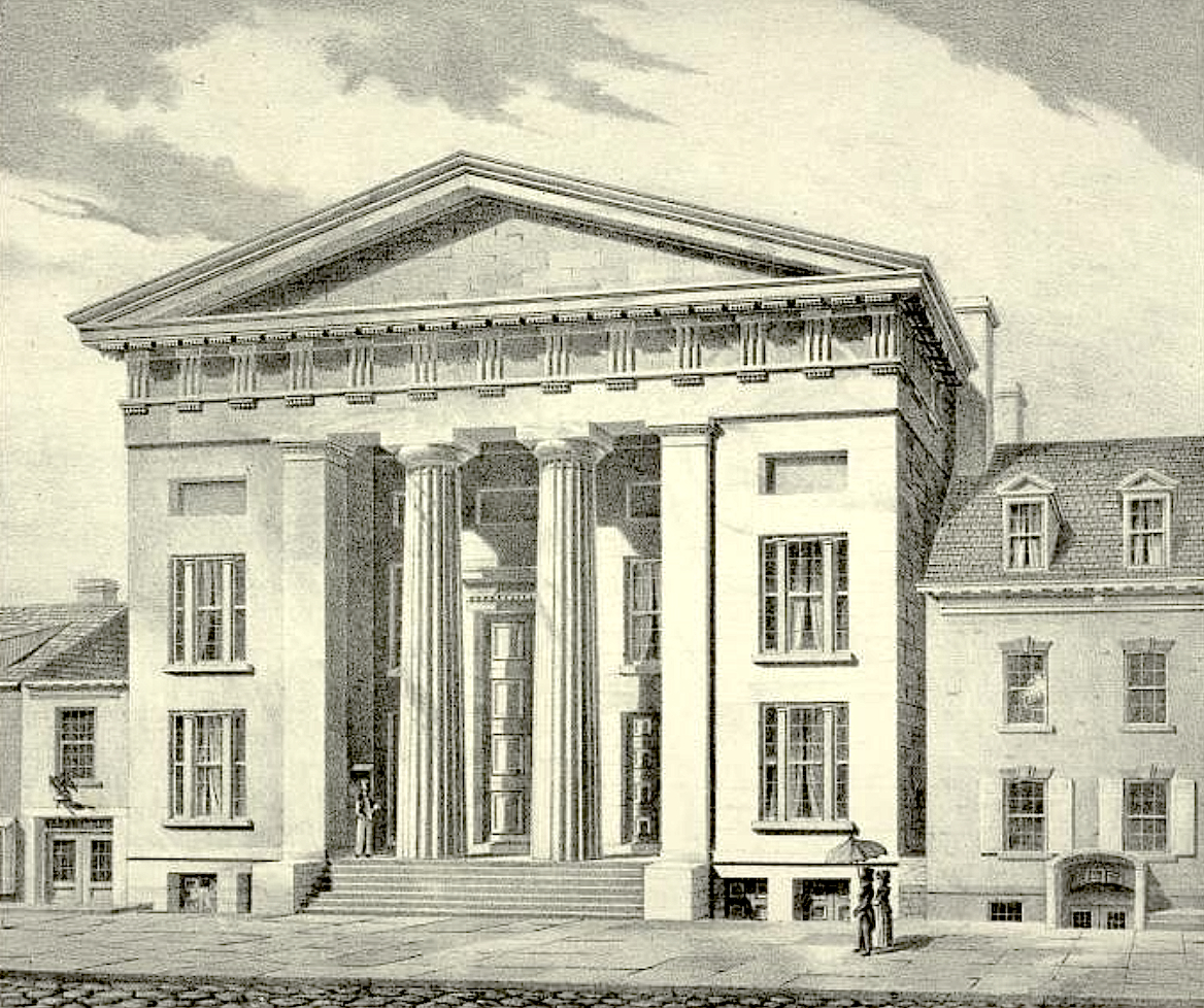 Caption reads: New York Theatre Erected 1826. Front on Bowery 75 feet. Depth 170 feet Credits read: On Stone by A. J. Davis; I. Town, Architect, N. Y.; Imbert’s Lithography